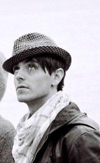 Photo of the actor David Dawson